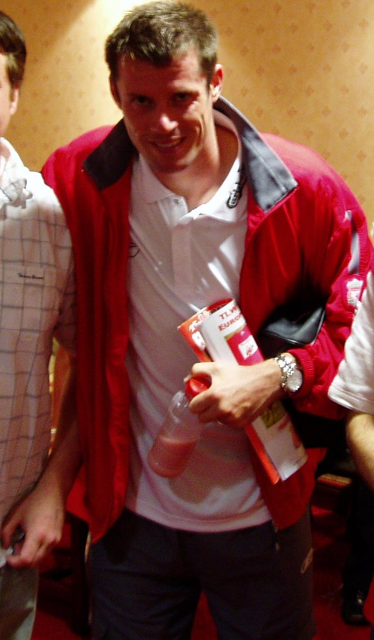 James "Jamie" Carragher (born 28 January 1978) is an English footballer who plays as a defender for Premier League side Liverpool.